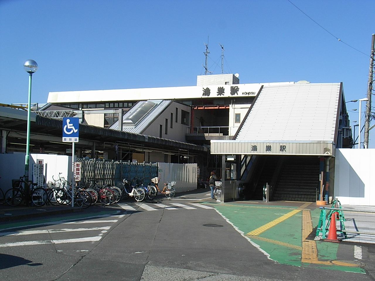 The east entrance at Konosu Station on the JR Takasaki Line